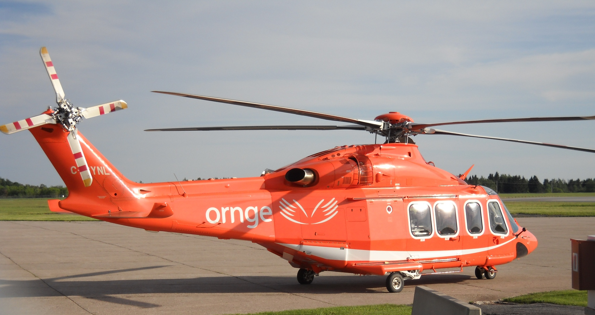 AugustaWestland AW139 registration C-GYNL belonging to Ornge at their Ottawa base.